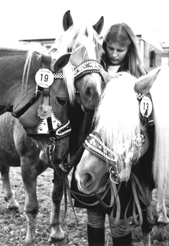 Haflinger mares at the Meura Tierzuchtgut stud with apprentice Theresina Brohm.